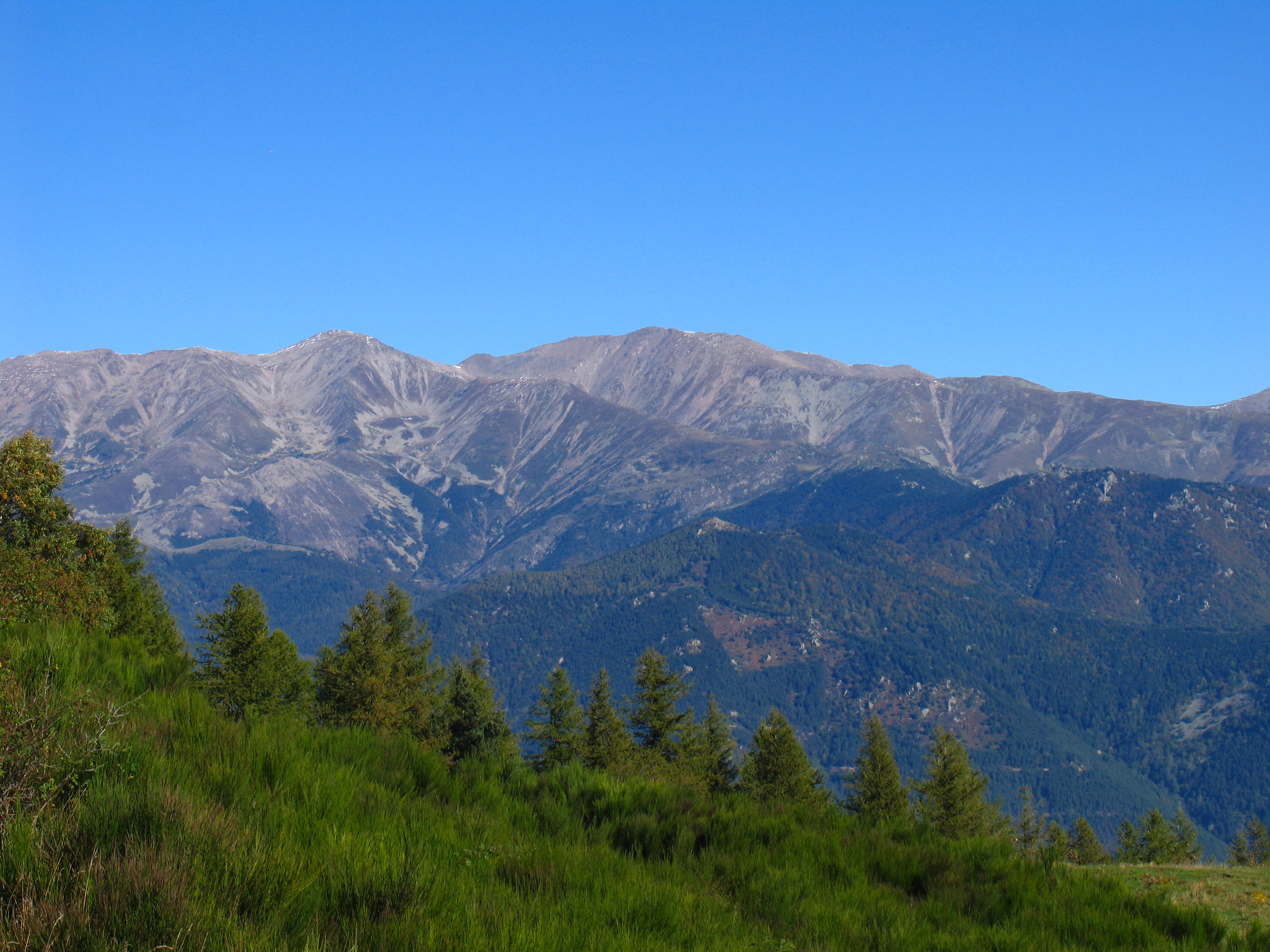 Pic Canigou (France)